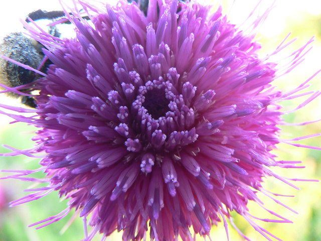 Musk Thistle at Orley Common in the early morning light.